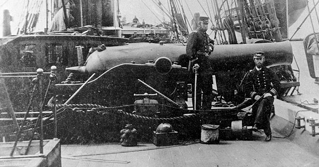 Veiw on deck of U.S.S. Kearsarge showing aft XI-in Dahlgren shell gun